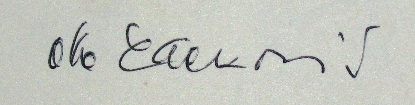 Signature of Otto Lackovič, Czech actor (1984)